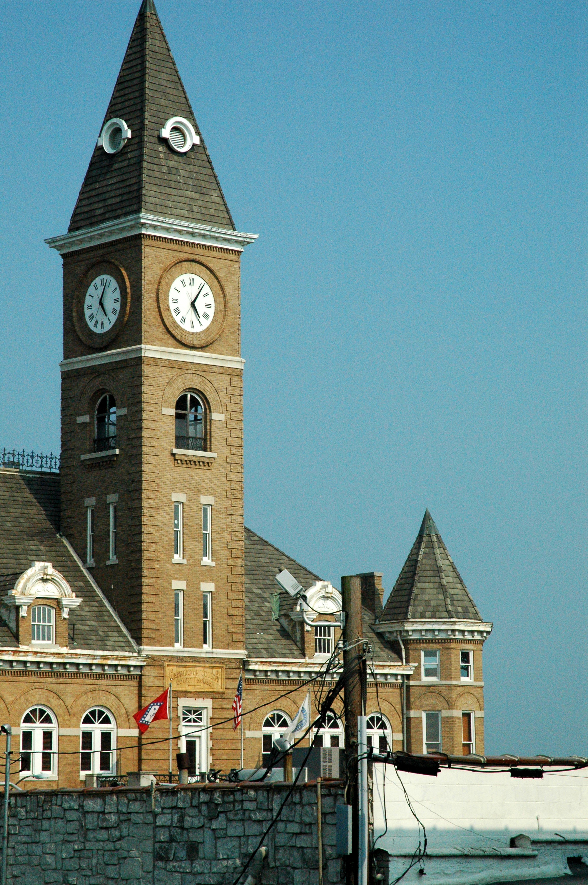 Washington County courthouse in Fayetteville, Arkansas, United States